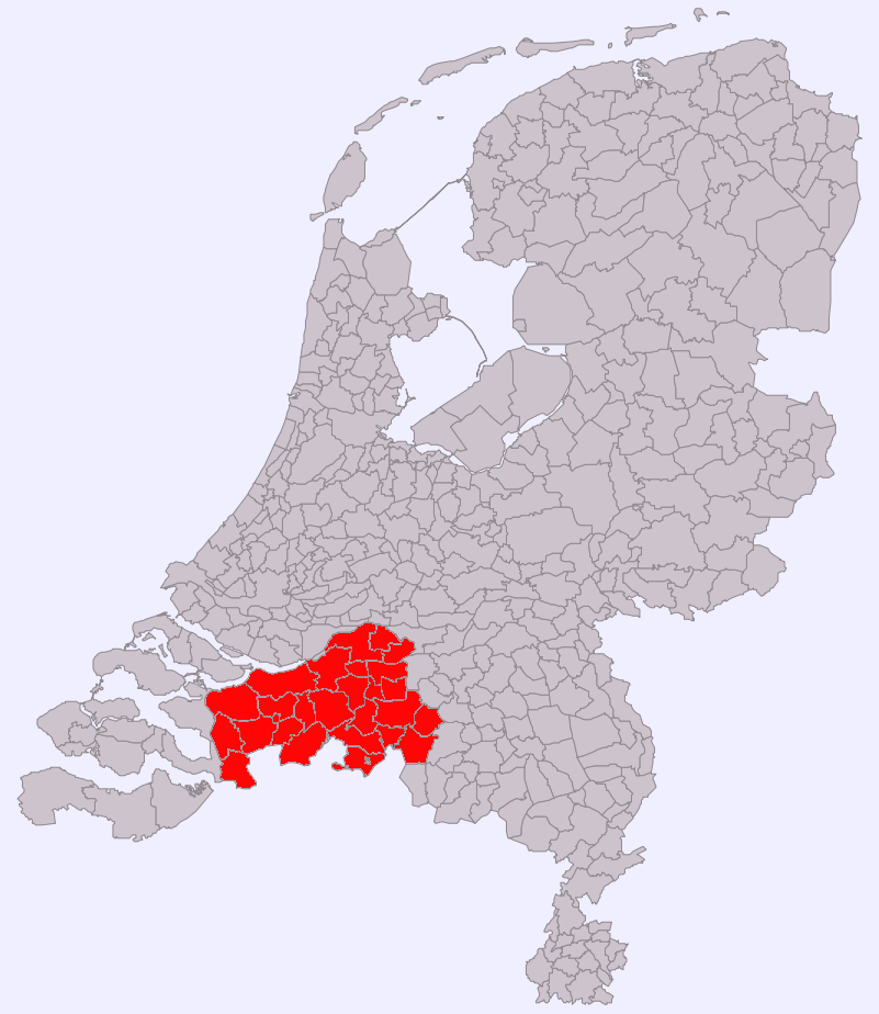 Dutch police region